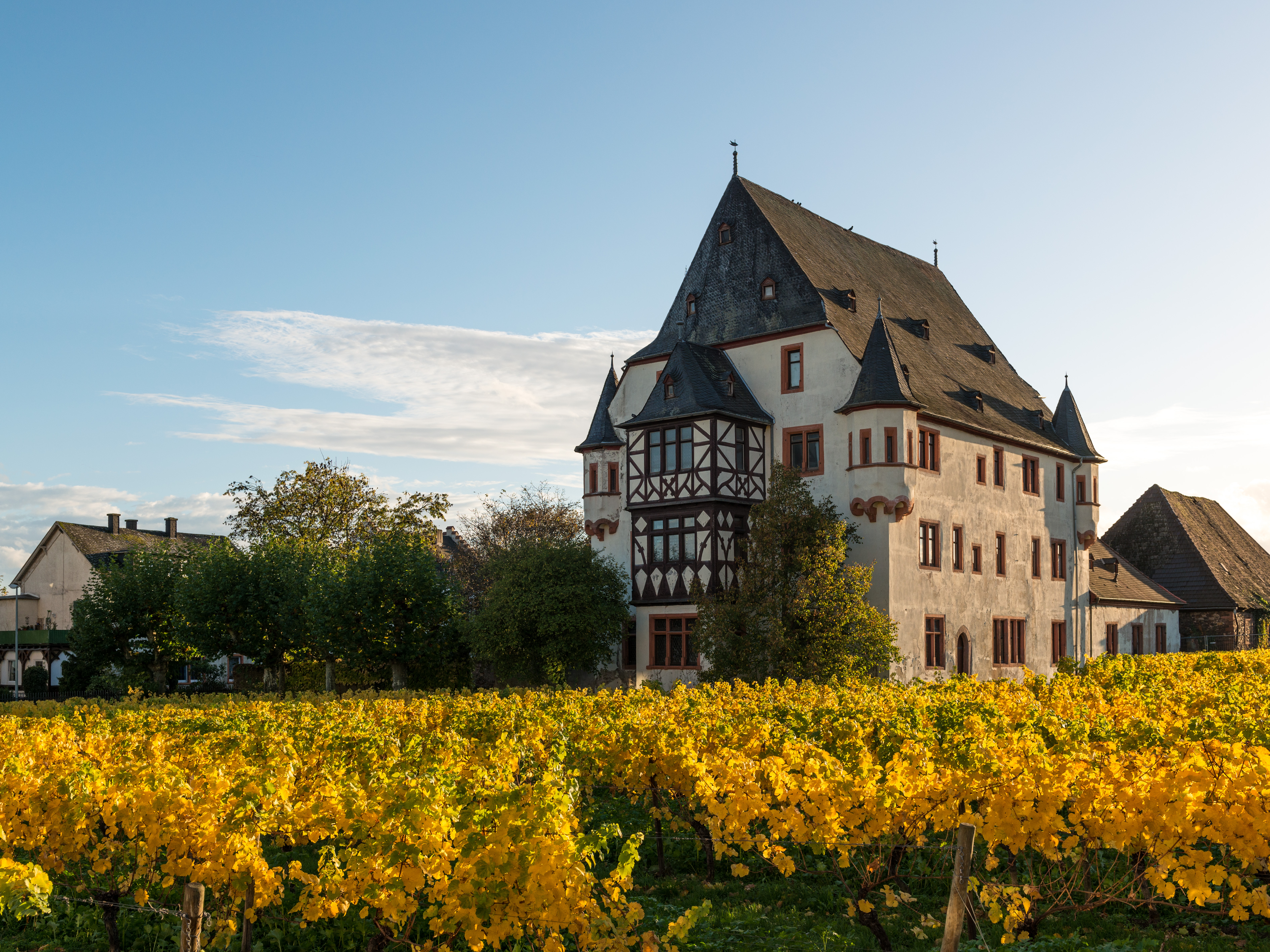 Schloss Schönborn in Geisenheim